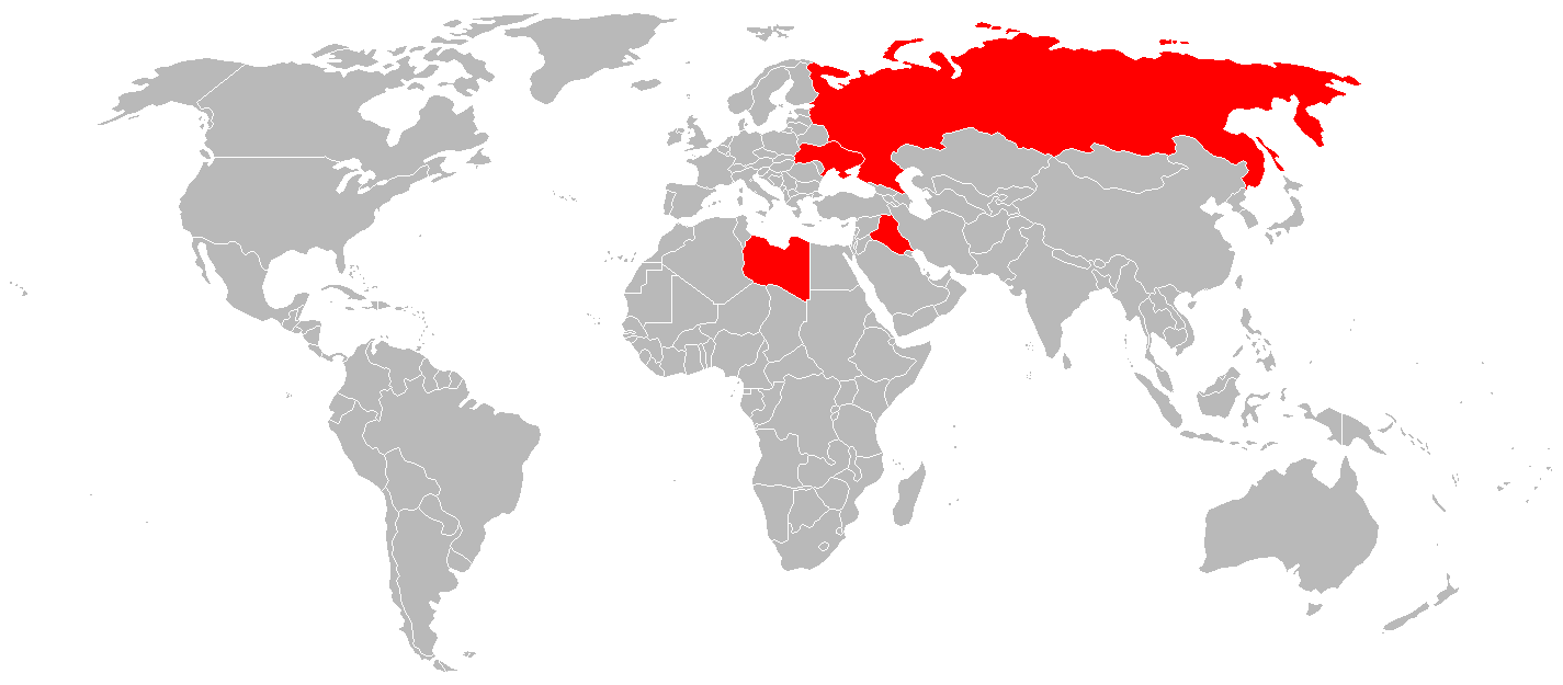 Operators of the Tupolev Tu-22 "Blinder". Own work, derivative of File:BlankMap-World.png.